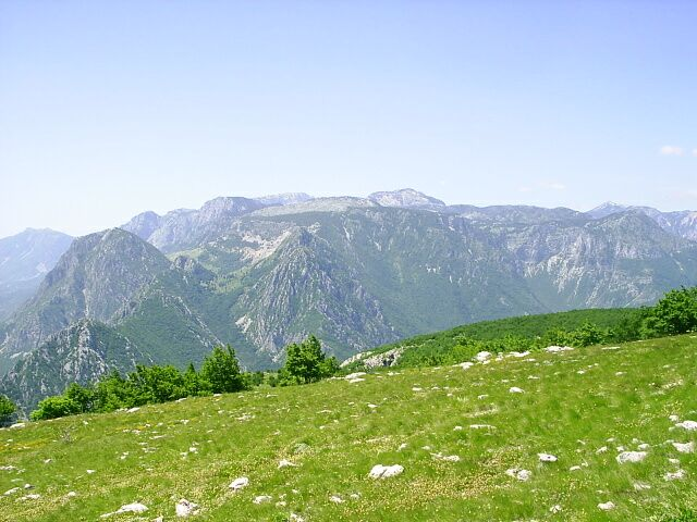 Čabulja mountains seen form Prenj, BiH